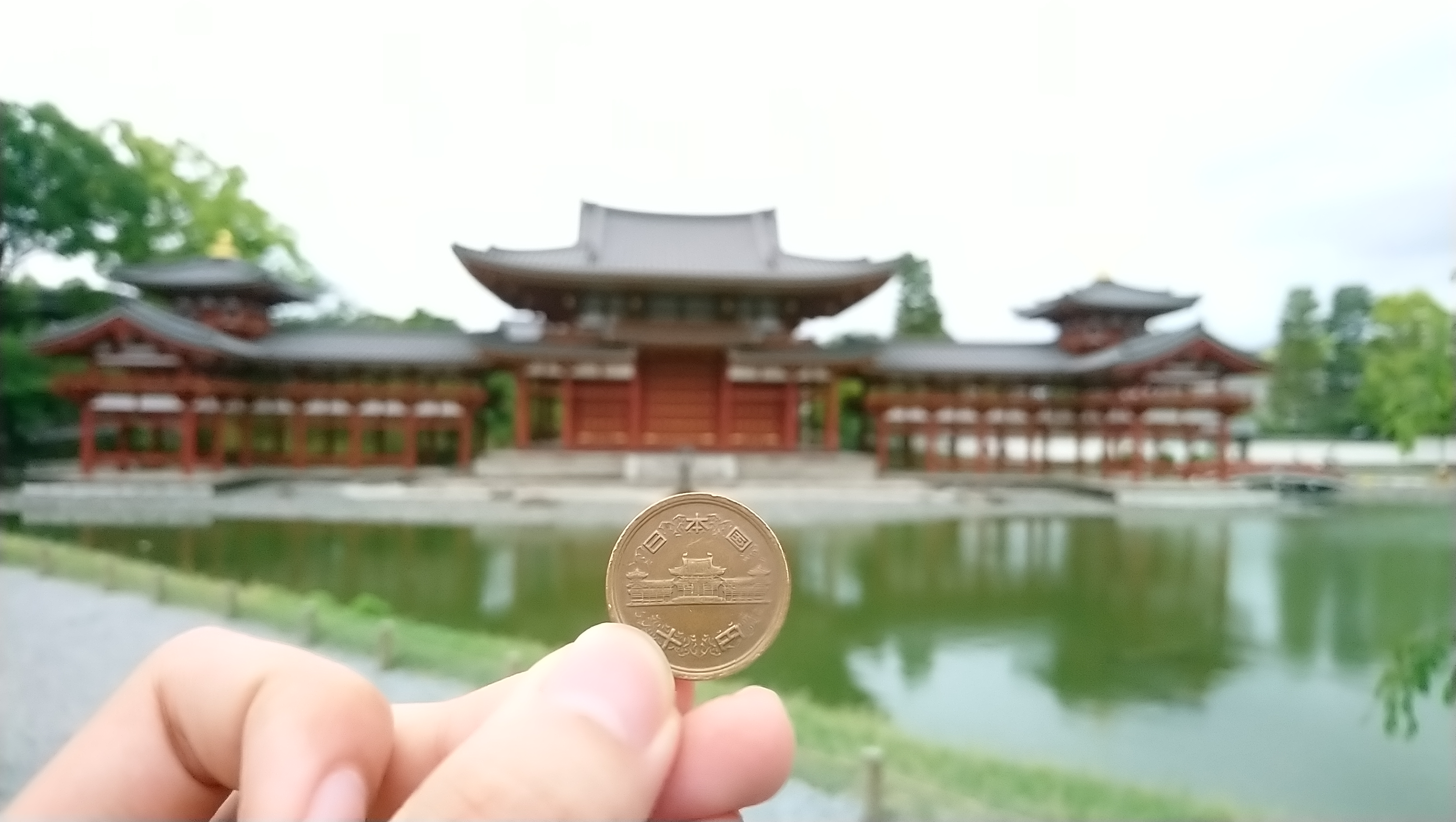 鳳凰堂 (Phoenix Hall) in the background and its emboss on obverse of 日本国 (Nippon-koku) 十円 (Ten yen). Phoenix Hall is in 平等院 (Byōdō-in), Uji, Kyoto prefecture, Japan.